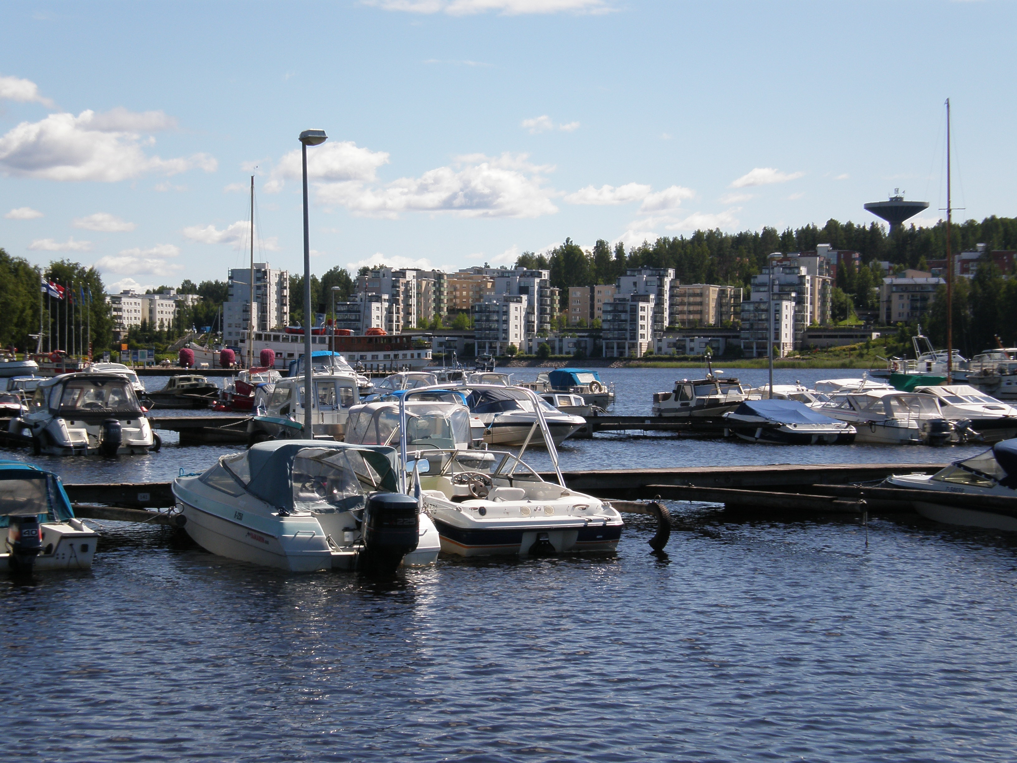 Jyväskylä harbour